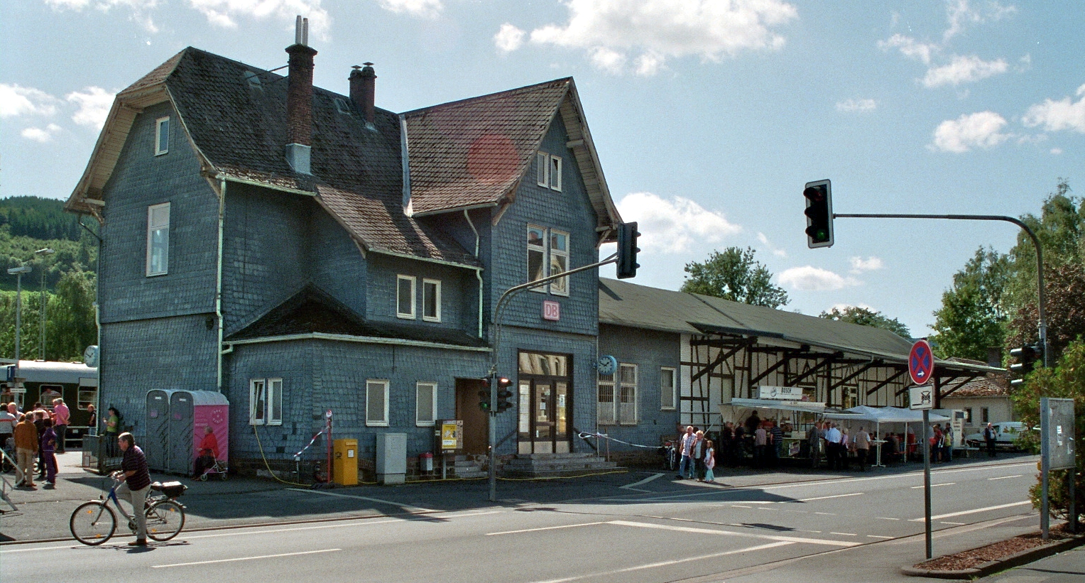 The Railway station of Bad Laasphe